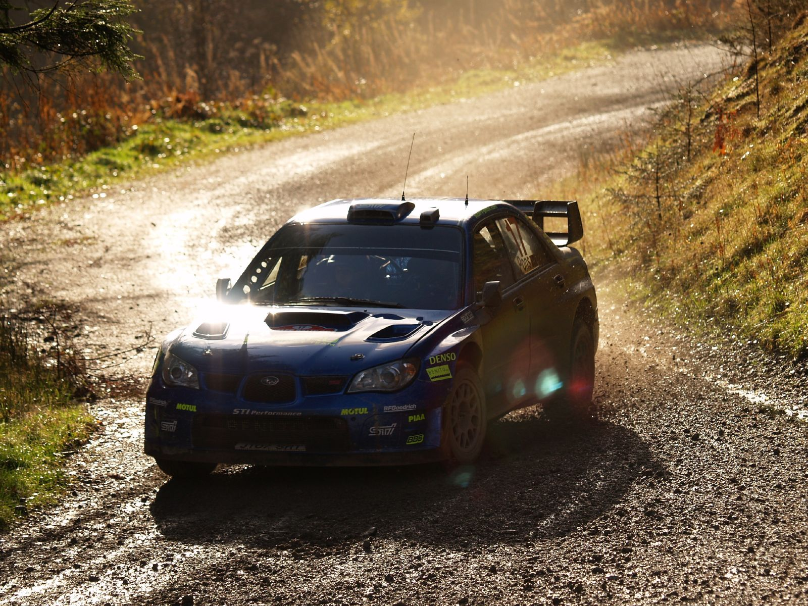 Xavier Pons driving his Subaru Impreza WRC 2007 during 2007 Wales Rally GB.